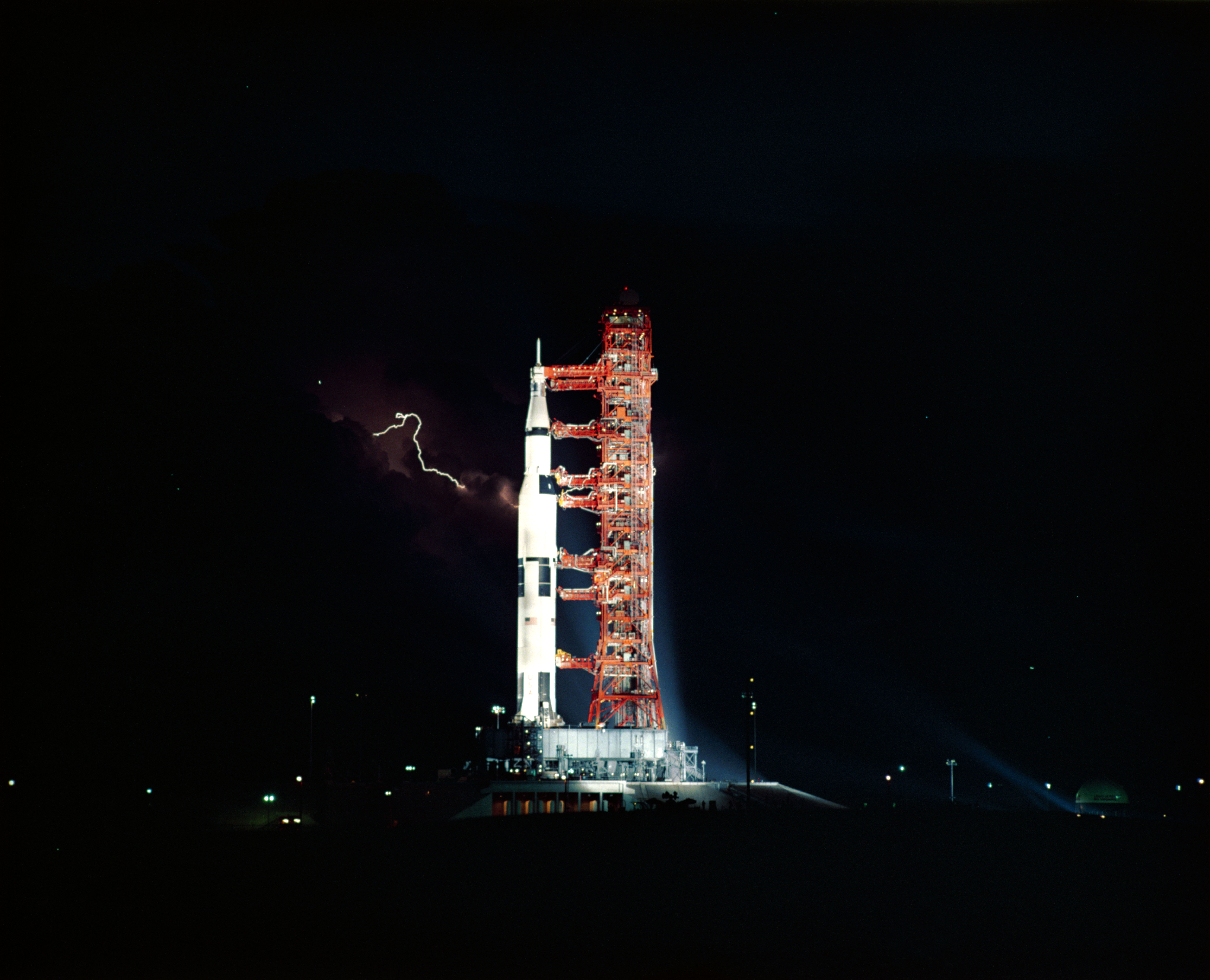 Apollo 15 at launch pad at night with lightning in the distance.